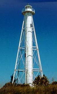 Gasparilla Island Lights.